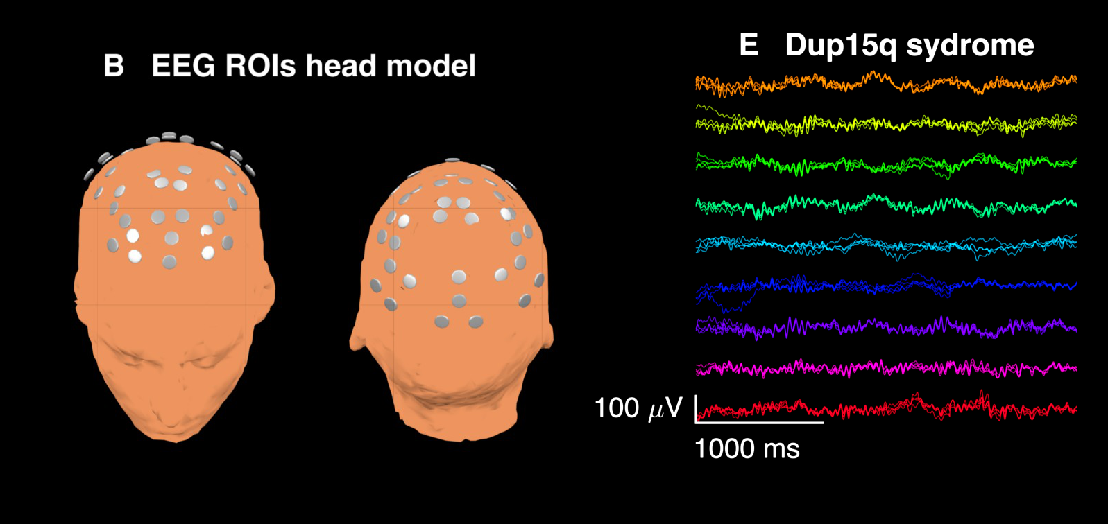 Spontaneous EEG recordings (right) from a 28-month-old child with Dup15q syndrome show diffuse beta frequency oscillations that represent an electrophysiological biomarker of the disorder. Different colored traces were recorded from different scalp regions. Electrode locations are shown on a head model (left). Cropped from original figure.